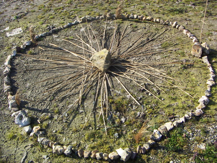 A ritual circle. Used on a Wikipedia page about 'magic circles' used in Wicca and similar faiths.